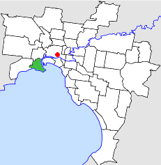 Location of the City of Williamstown within Melbourne.